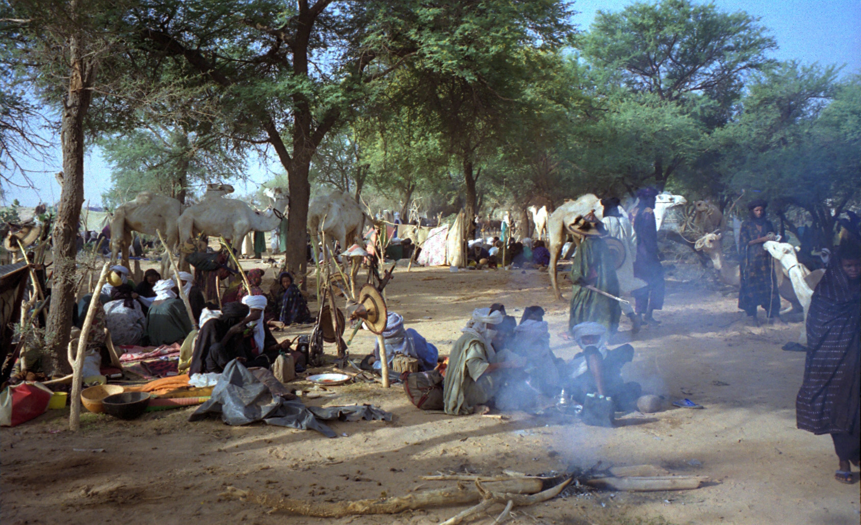 Several Wodaabe clans have gathered for a Gerewol festival.